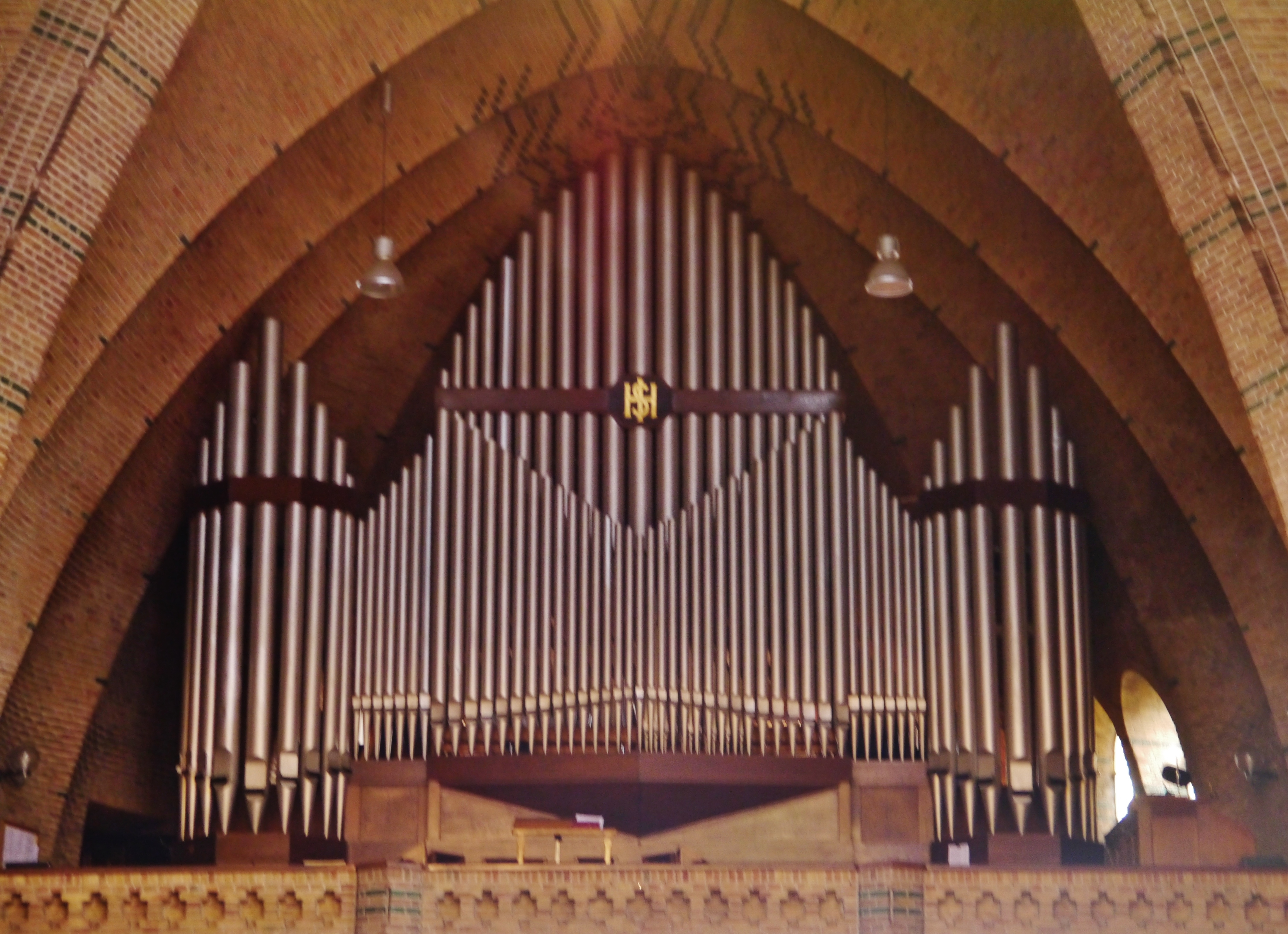 Organ of St. John, Waalwijk, Province of North Brabant, Netherlands